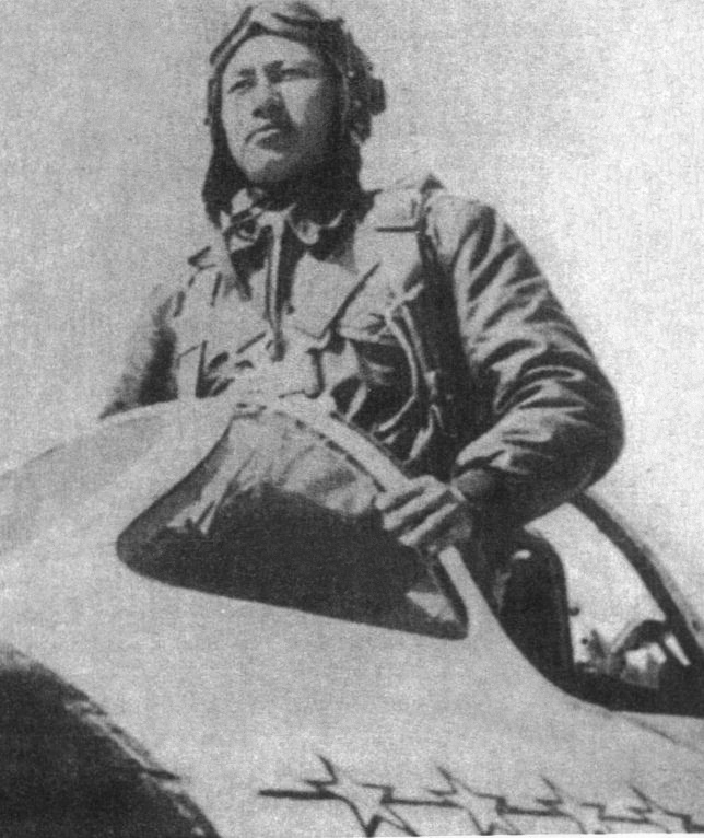 Zhang Jihui (12th Regiment, 4th Division) was the Chinese MiG-15 pilot who shot down the F-86E BuNo 51-2752 of George Davis on February 10 1952, killing the American ace.